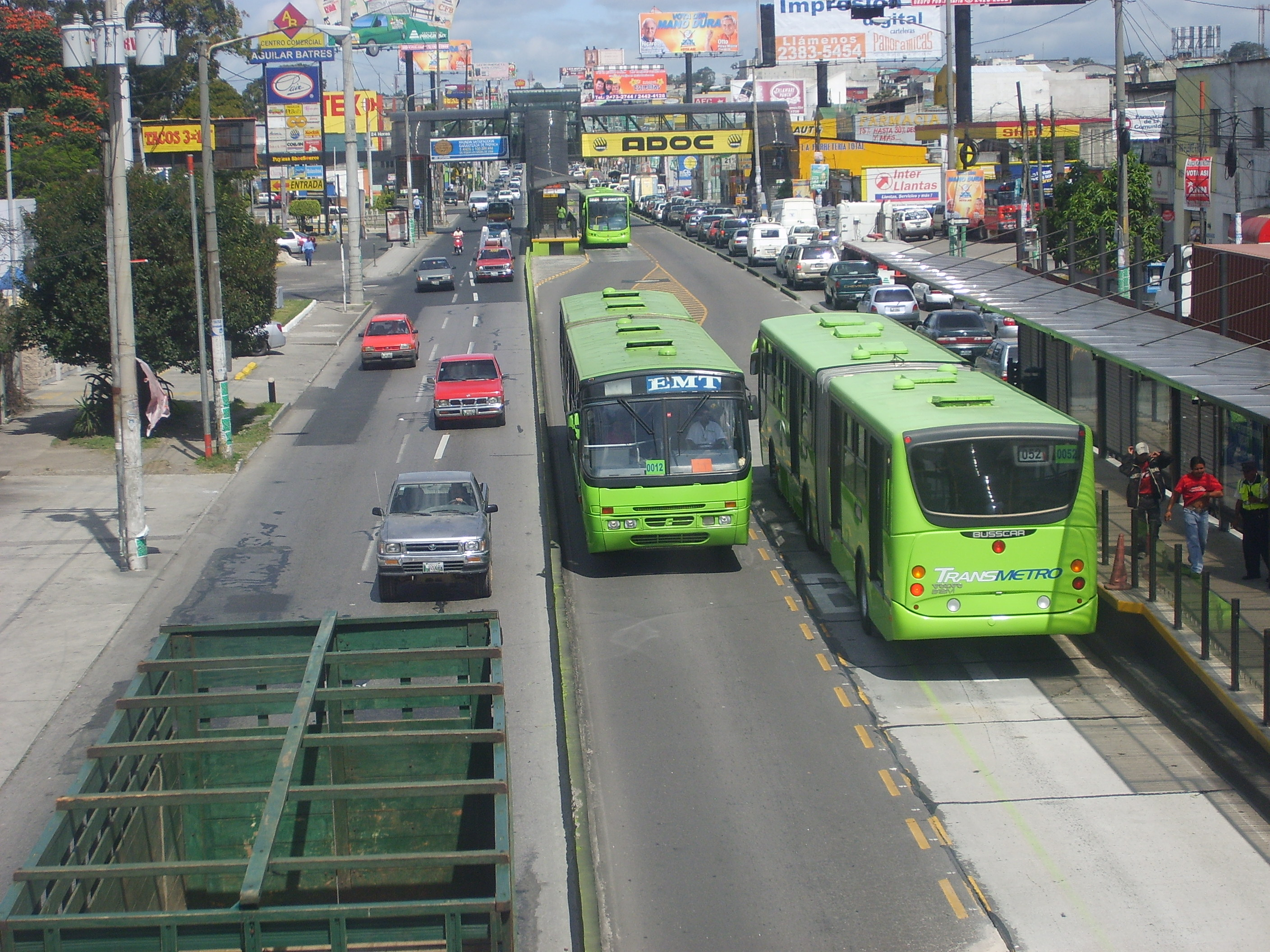 Transmetro is a municipal bus service in Guatemala City running between the city hall (Municipio) and Centro Sur. Unlike other bus lines, it has fixed stops, runs on dedicated lanes (partly) and is uses a fleet of modern VOLVO buses, produced by CIFERAL in Duque de Caxias-RJ, Brasil. Stations and vehicles are guarded by Policia Municipal. The picture shows two buses passing at Mariscal station.